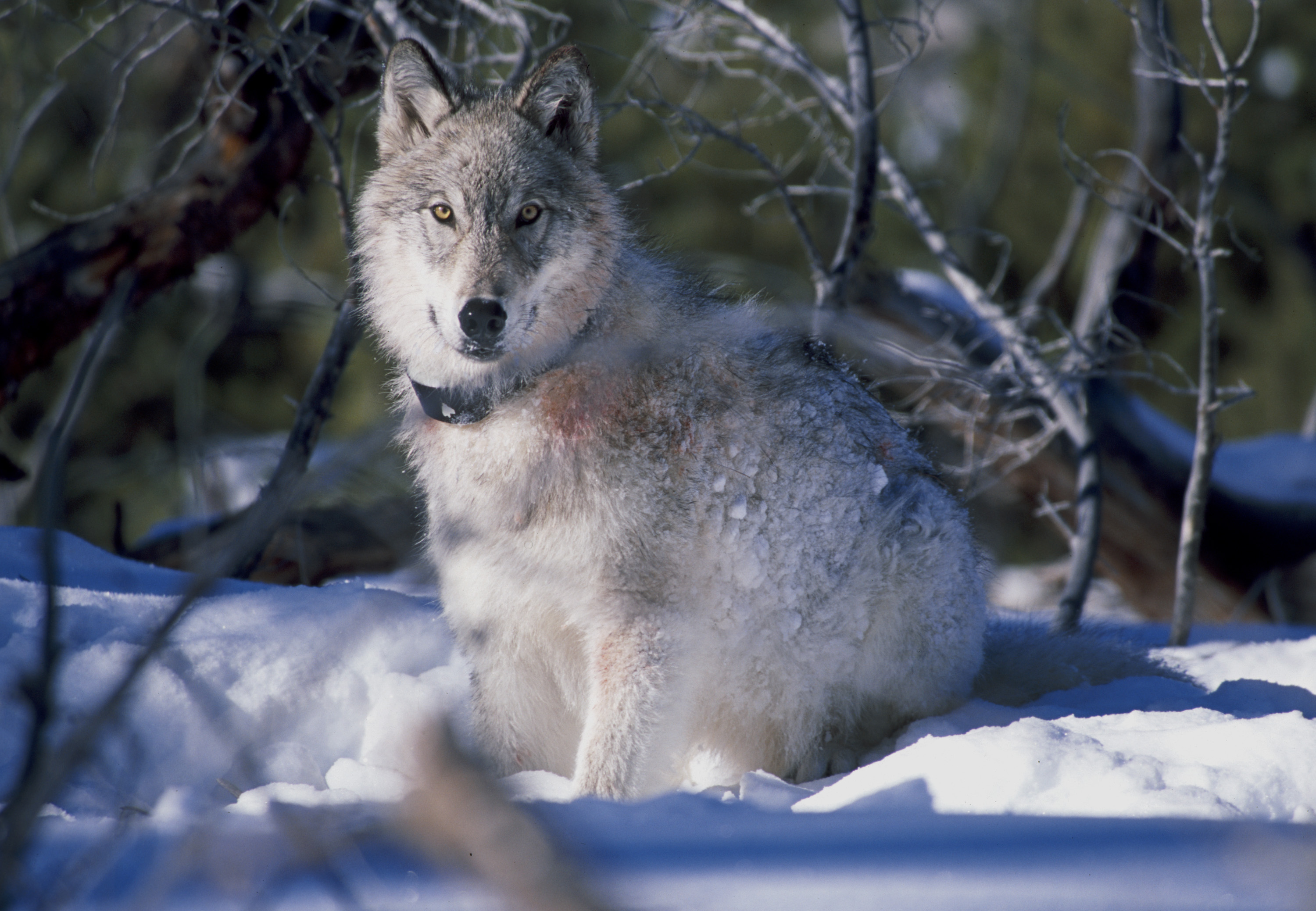 A 130 pound wolf watches biologists in Yellowstone National Park after being captured and fitted with a radio collar on 1-9-03.